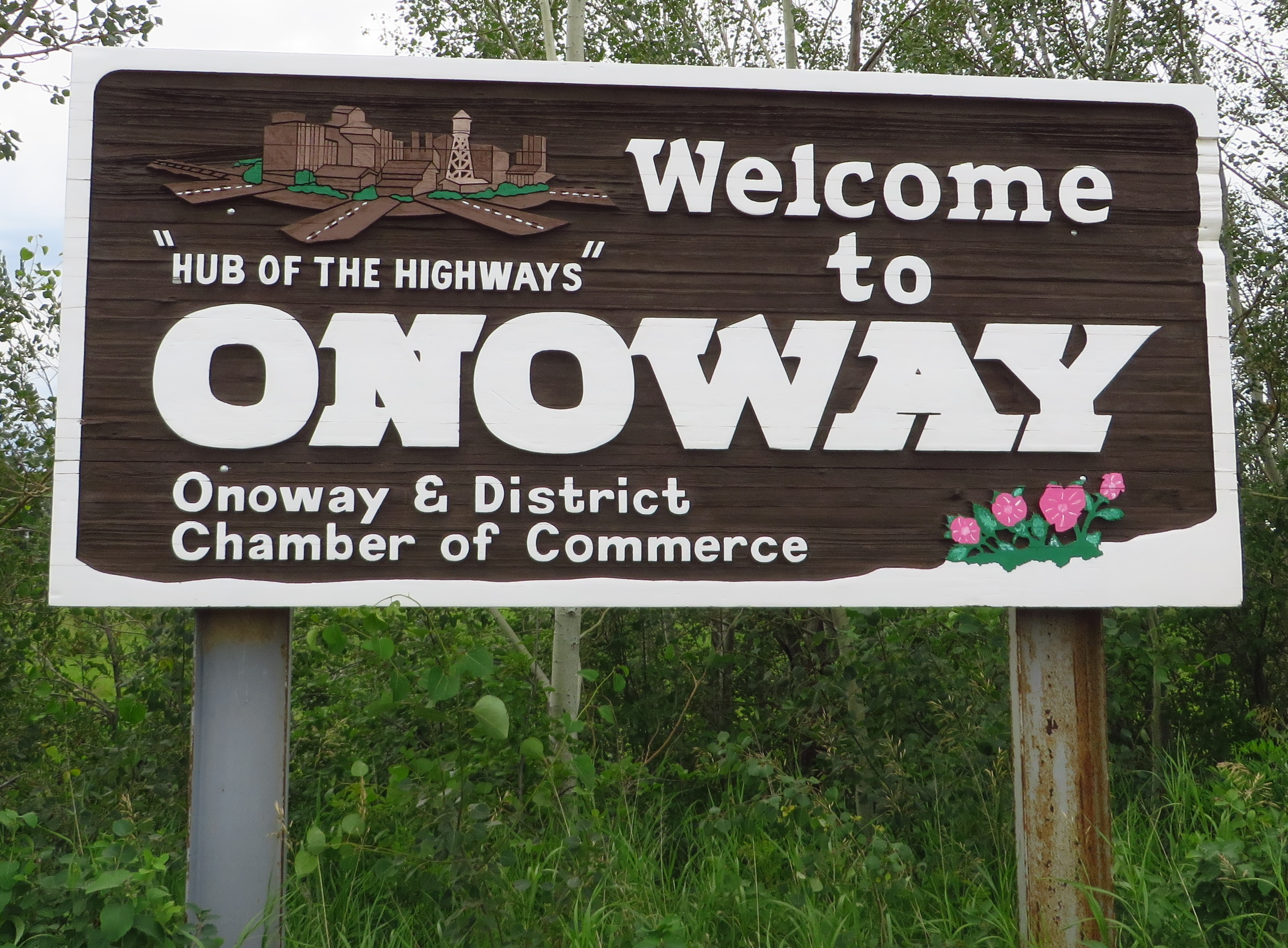 A sign welcoming drivers to Onoway